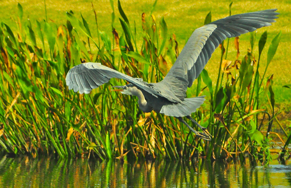 Great Blue Heron Flying